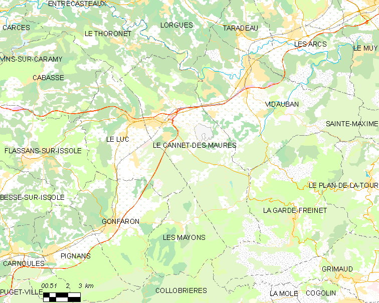 Map of French municipality Le Cannet-des-Maures